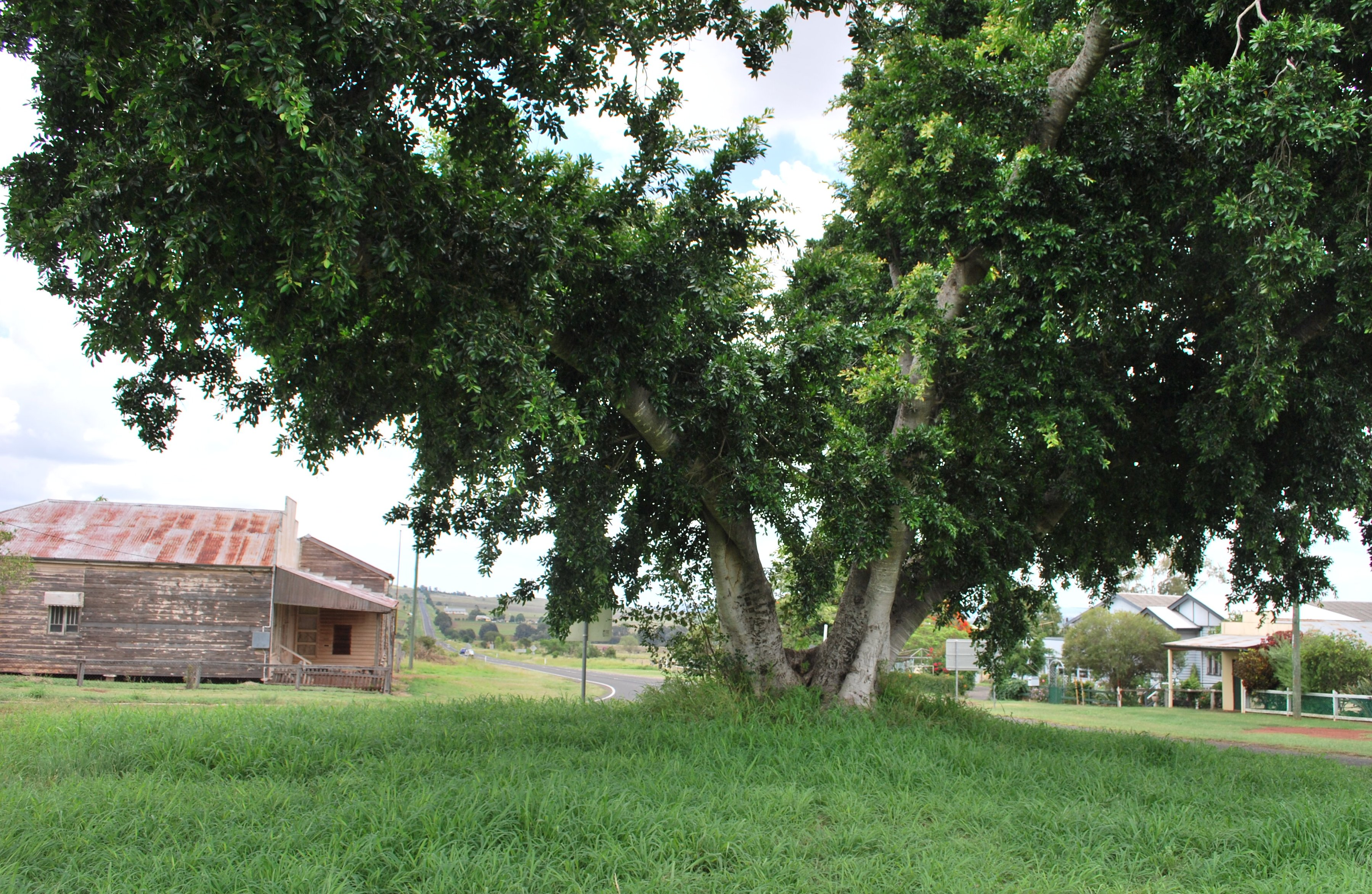 Binjour, Queensland, as seen behind a large tree.